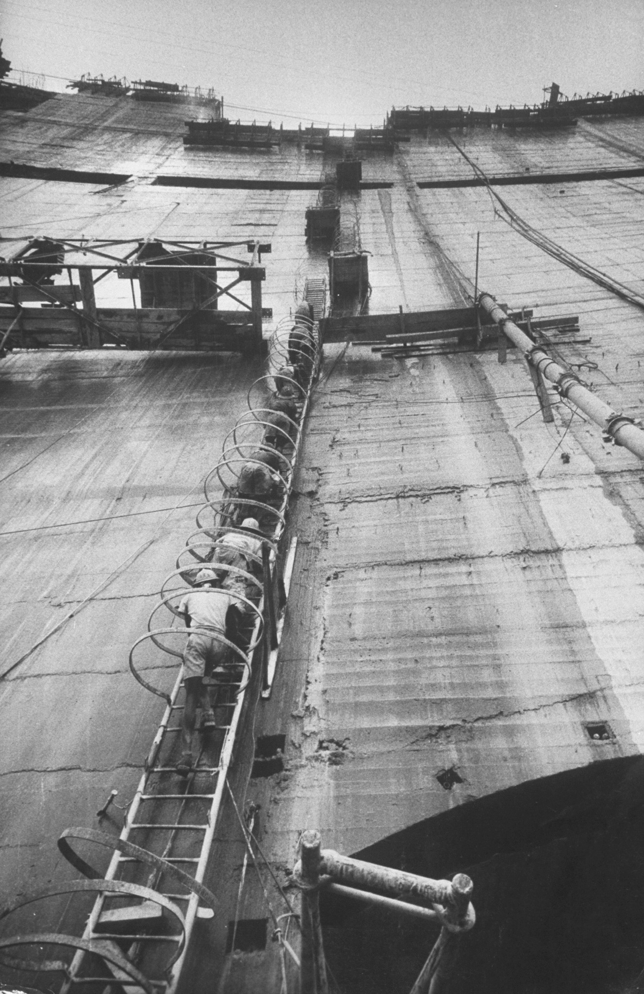 Image showing the construction of Kariba Dam.